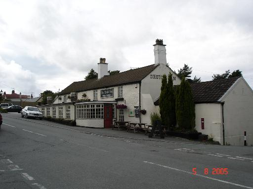 Druids Inn Gorsedd. The Druids Inn public house in the village of Gorsedd on the